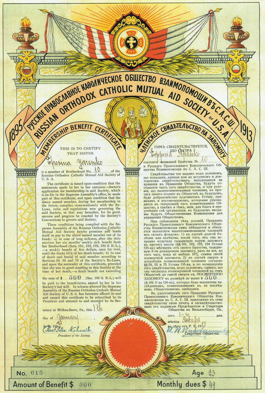 ROCMAS certificate (1913)